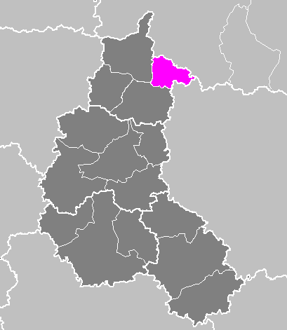 Maps of arrondissements and cantons of France: Arrondissement de Sedan.PNG